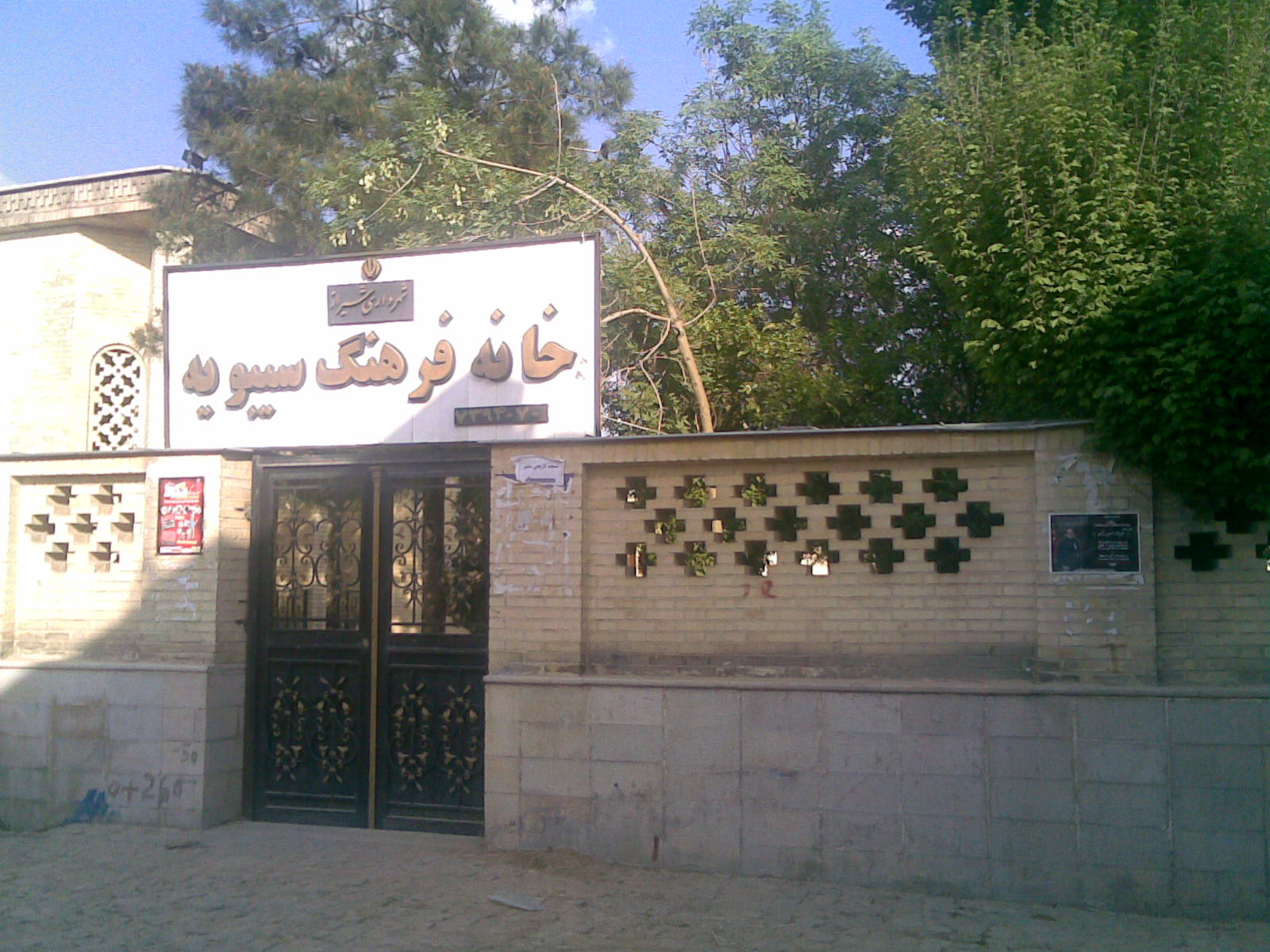 Cultural center of Sibawayih in Shiraz